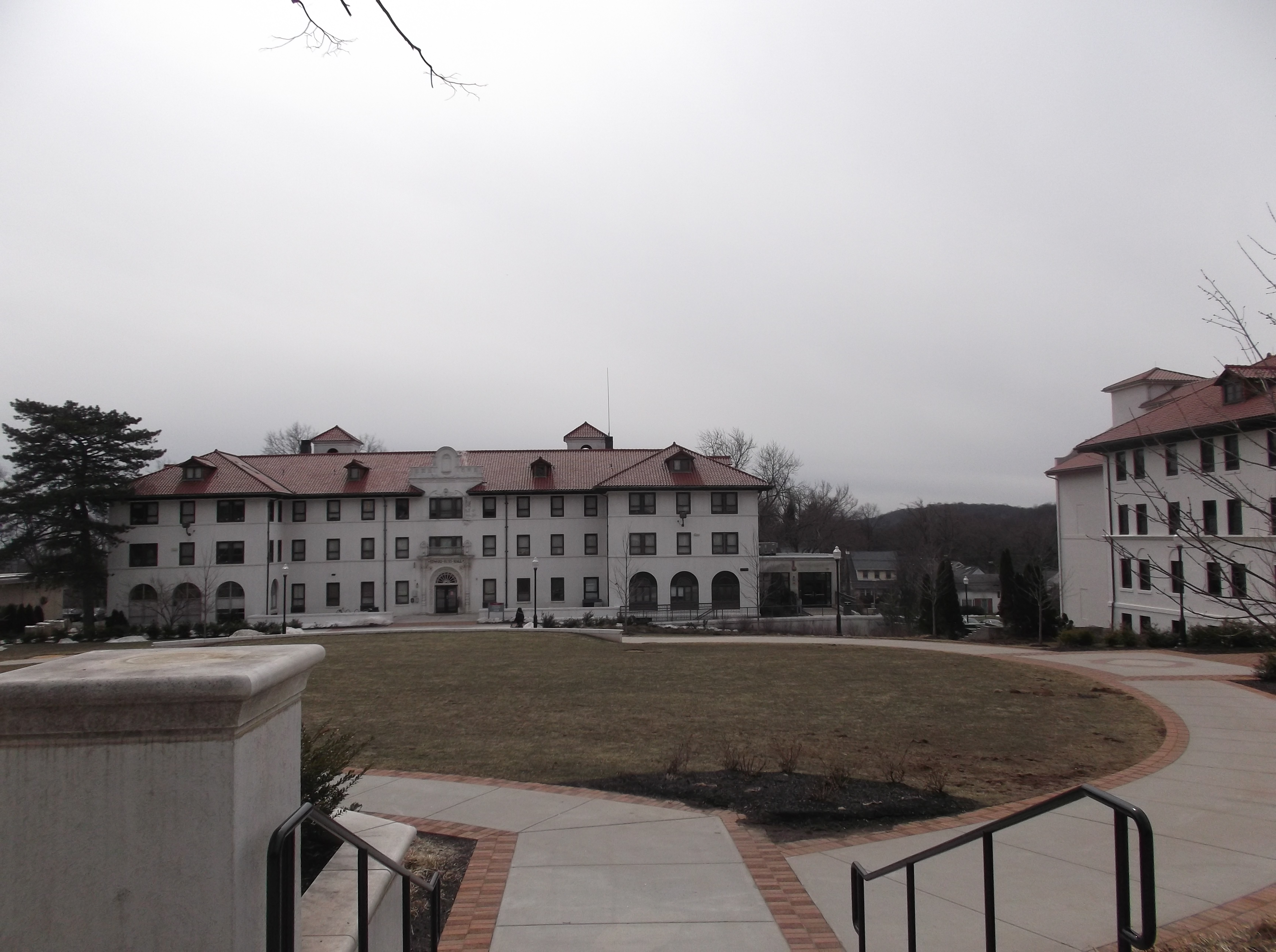 Montclair, Little Falls & Clifton, New Jersey